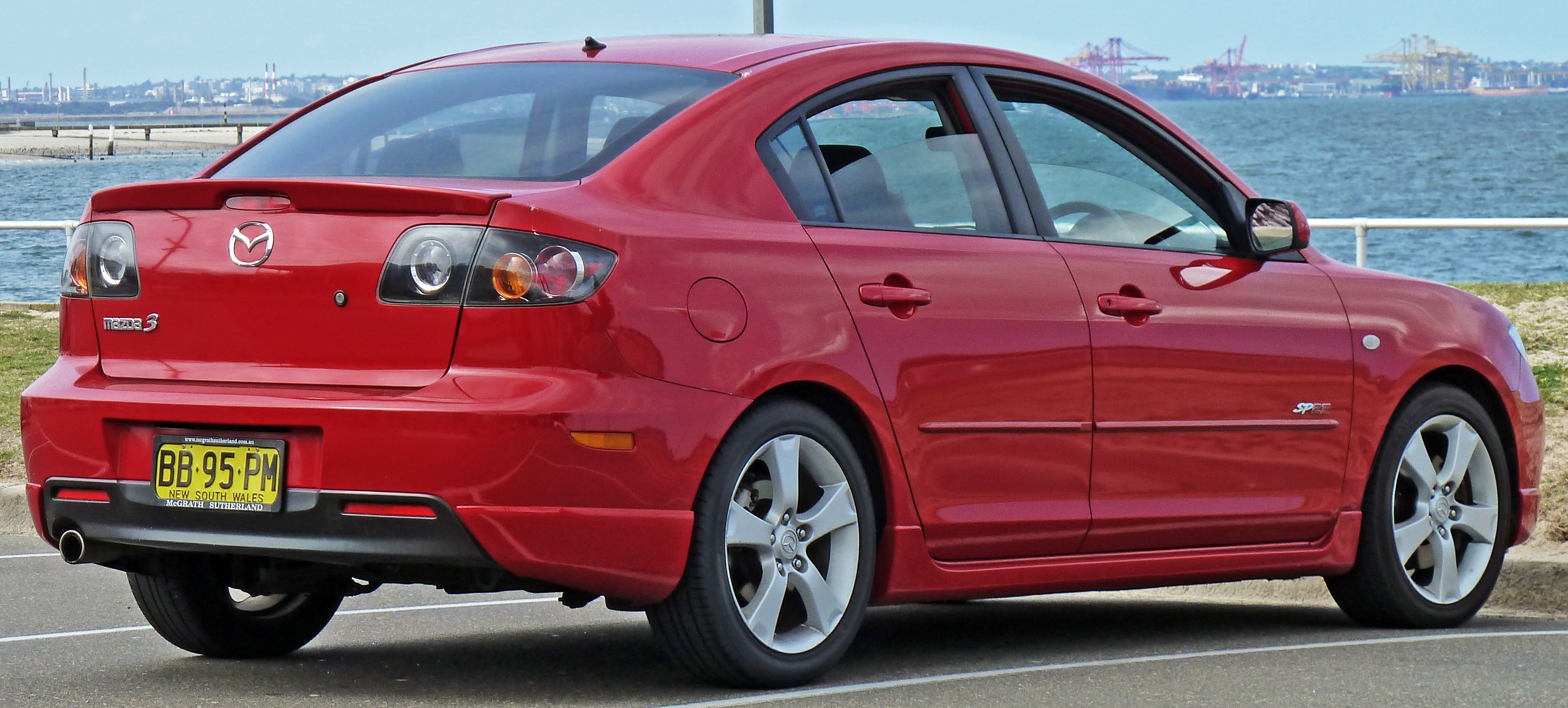 2004–2006 Mazda3 (BK) SP23 sedan. Photographed in Sandringham, New South Wales, Australia.